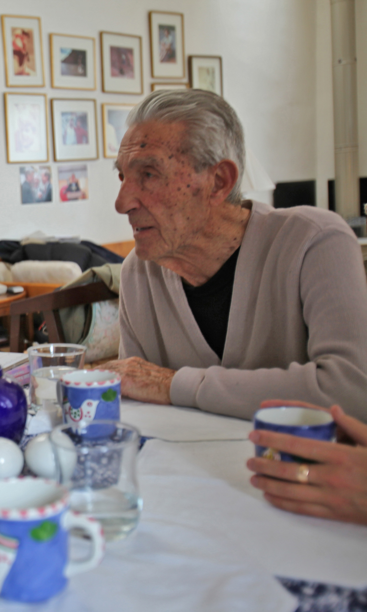 Stewart Udall 23 January 2010 at his kitchen table in Santa Fe. Almost 90 years old, Udall remained an active, concerned citizen; seen here in his home with overseas guests discussing his interests and public concerns. He died two months later.